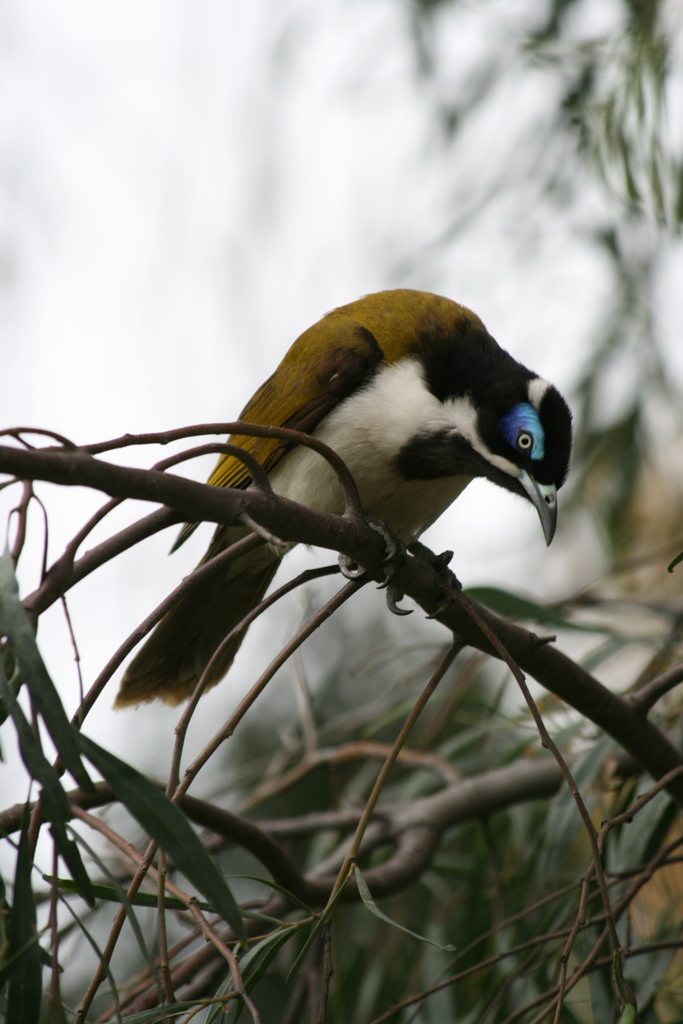 Blue-faced Honeyeater at Goondiwindi, Australia.